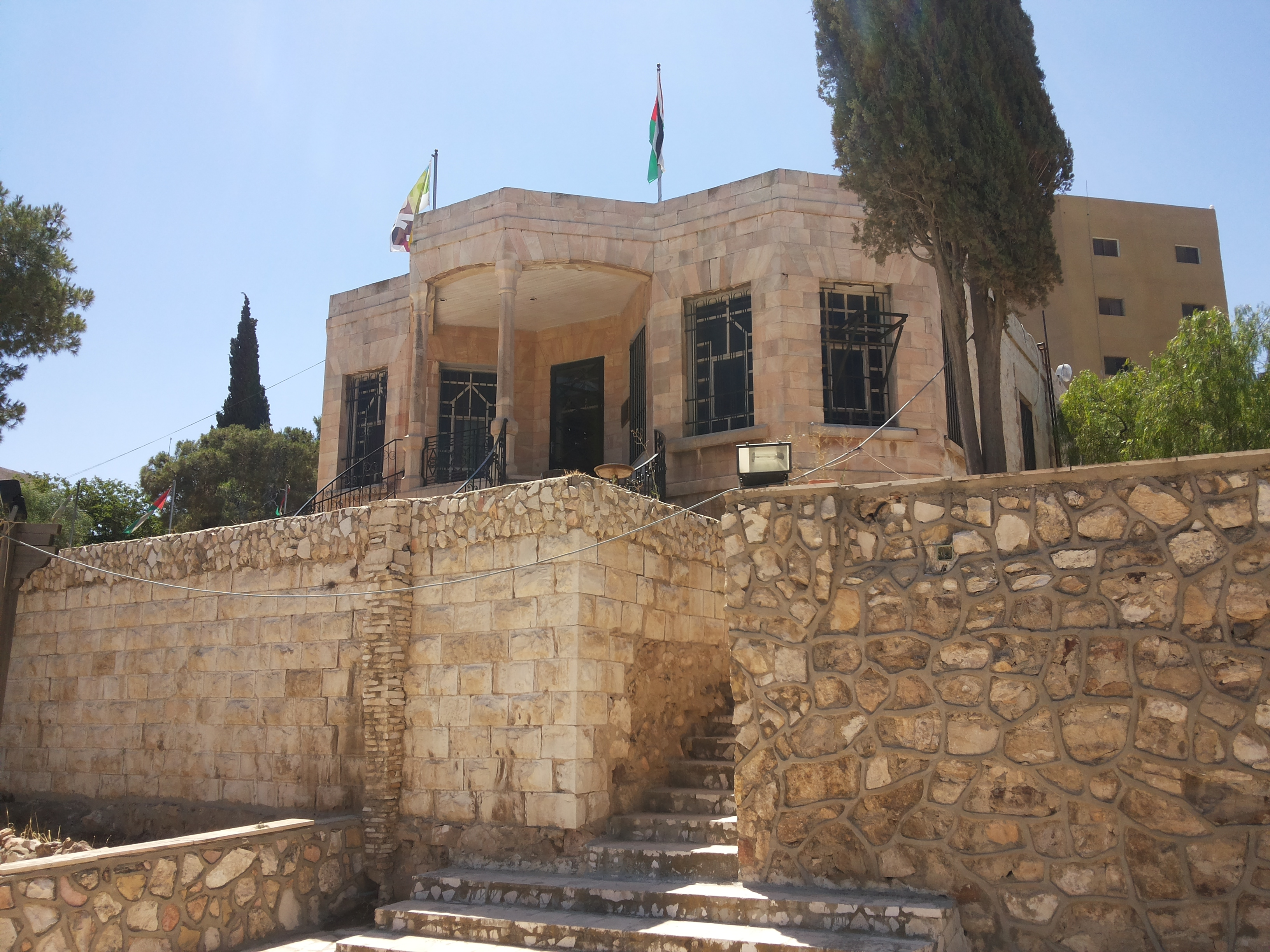 The House of Jordanian Poetry, Amman, Jordan